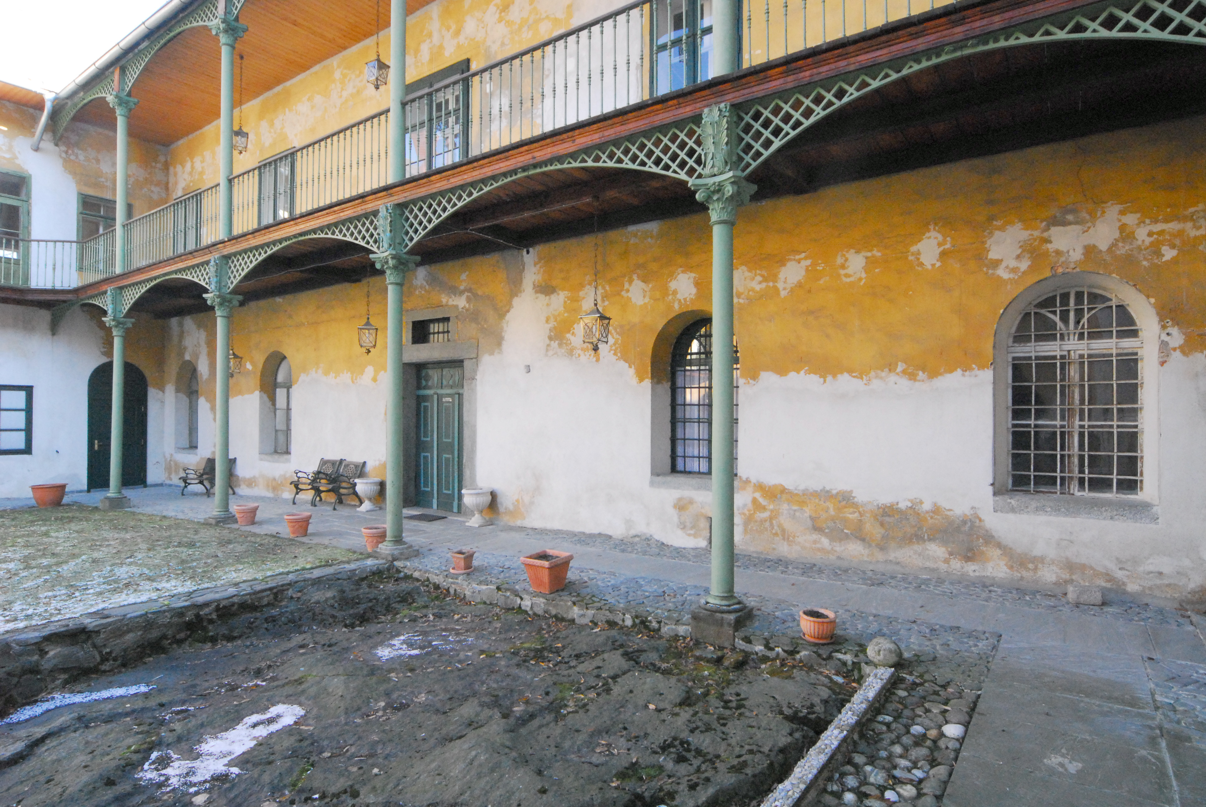 Access balcony at the inner yard of the castle “Zigguln”, Schlossweg #28, in the 12th district "Sankt Martin", the north-west of Klagenfurt, capital of the state Carinthia, Austria, EU